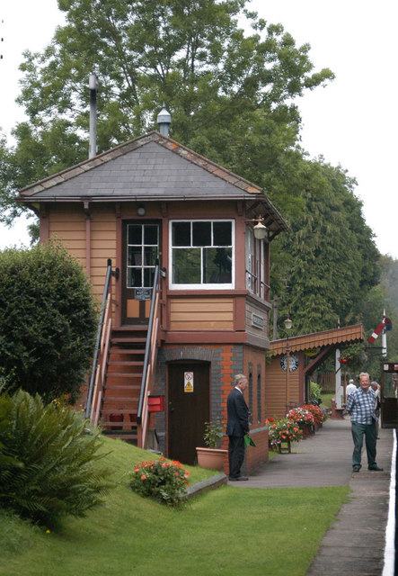 Signal box and platform, Crowcombe Heathfield railway station, Somerset, England. For more information see the Wikipedia article Crowcombe Heeathfield railway station.